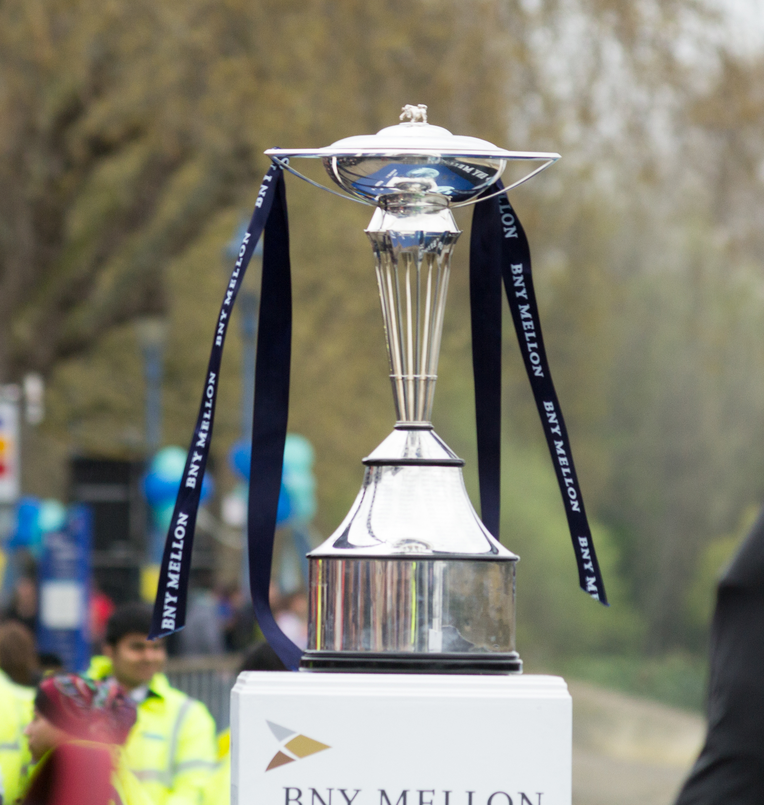 The trophy for The BNY Mellon Boat Race, shown here before the 2014 race.